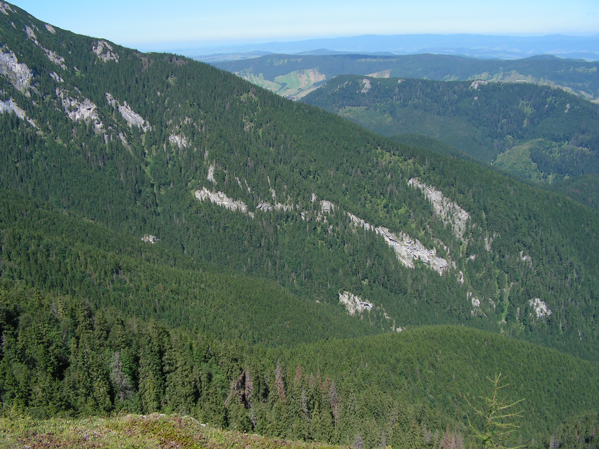 The upper part of Suchá Valley in Belianske Tatra Mountains.